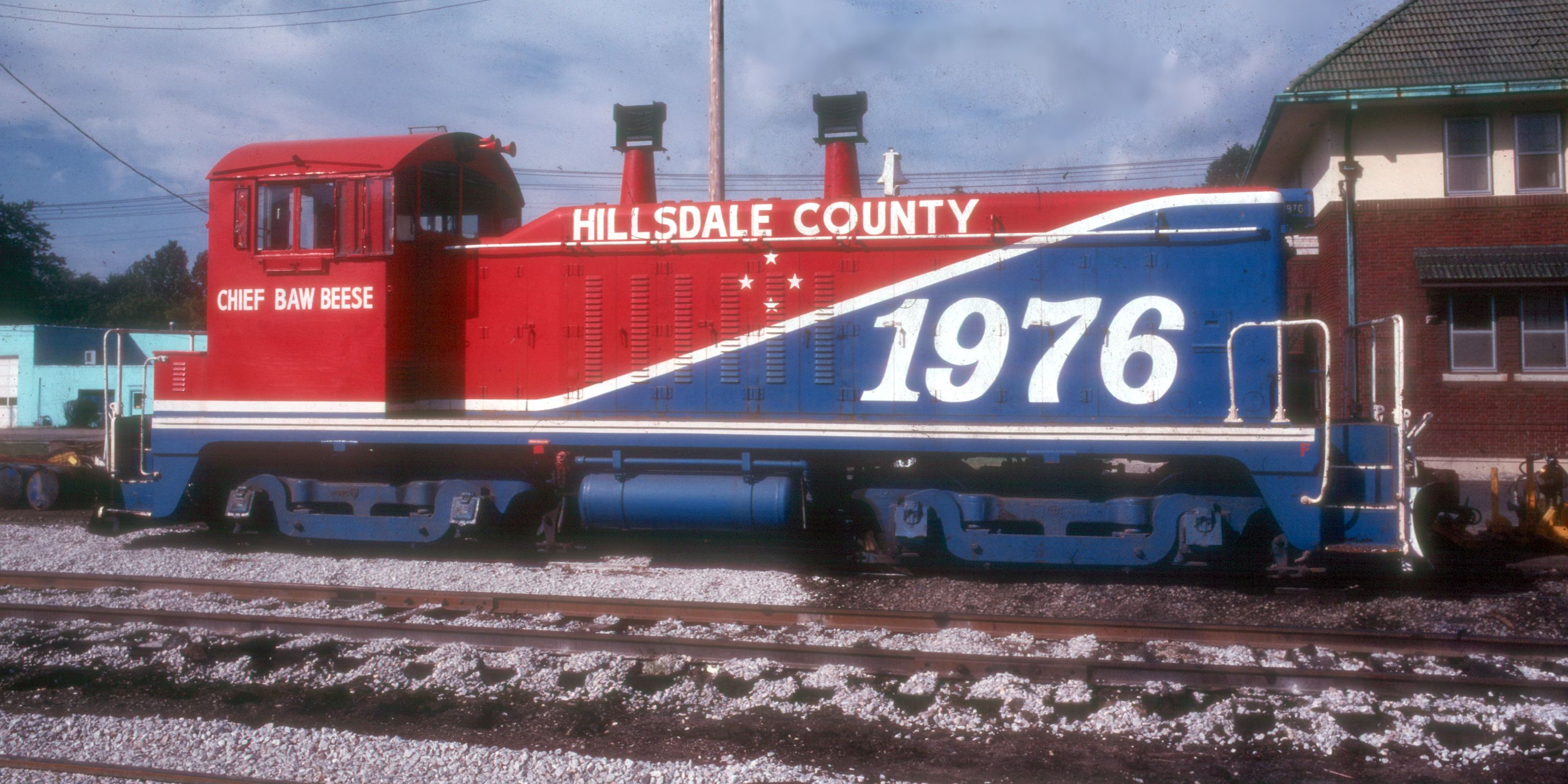 Hillsdale County Railroad NW2 in Bicentennial paint in Hillsdale, Michigan in 1978